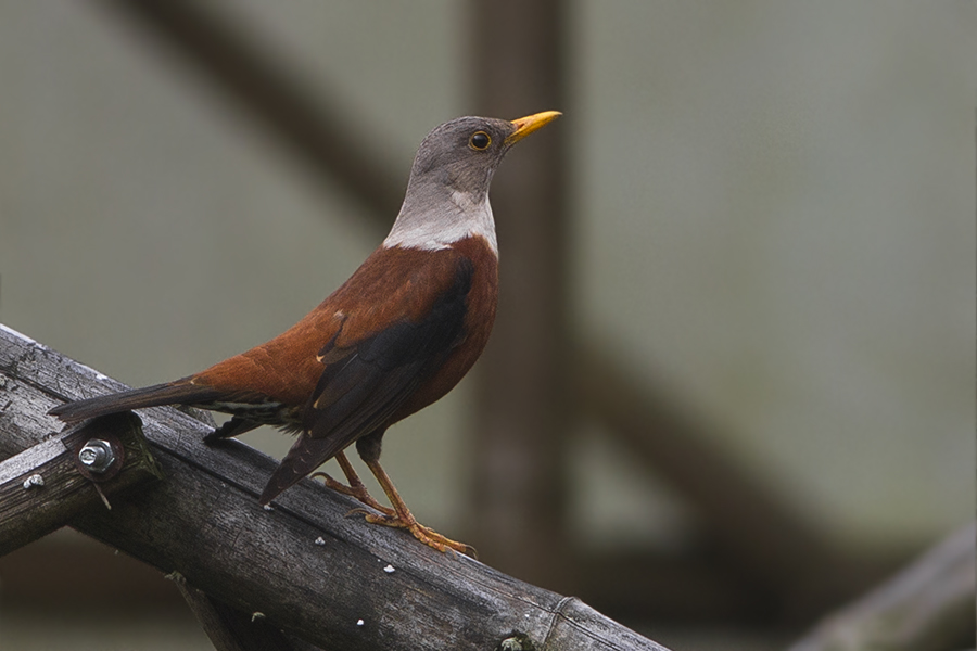 The species Chestnut Thrush had been photographed during the birding trip of GoingWild in Khangchendzonga Biosphere Reserve in West Sikkim, India on 21.02.2016.